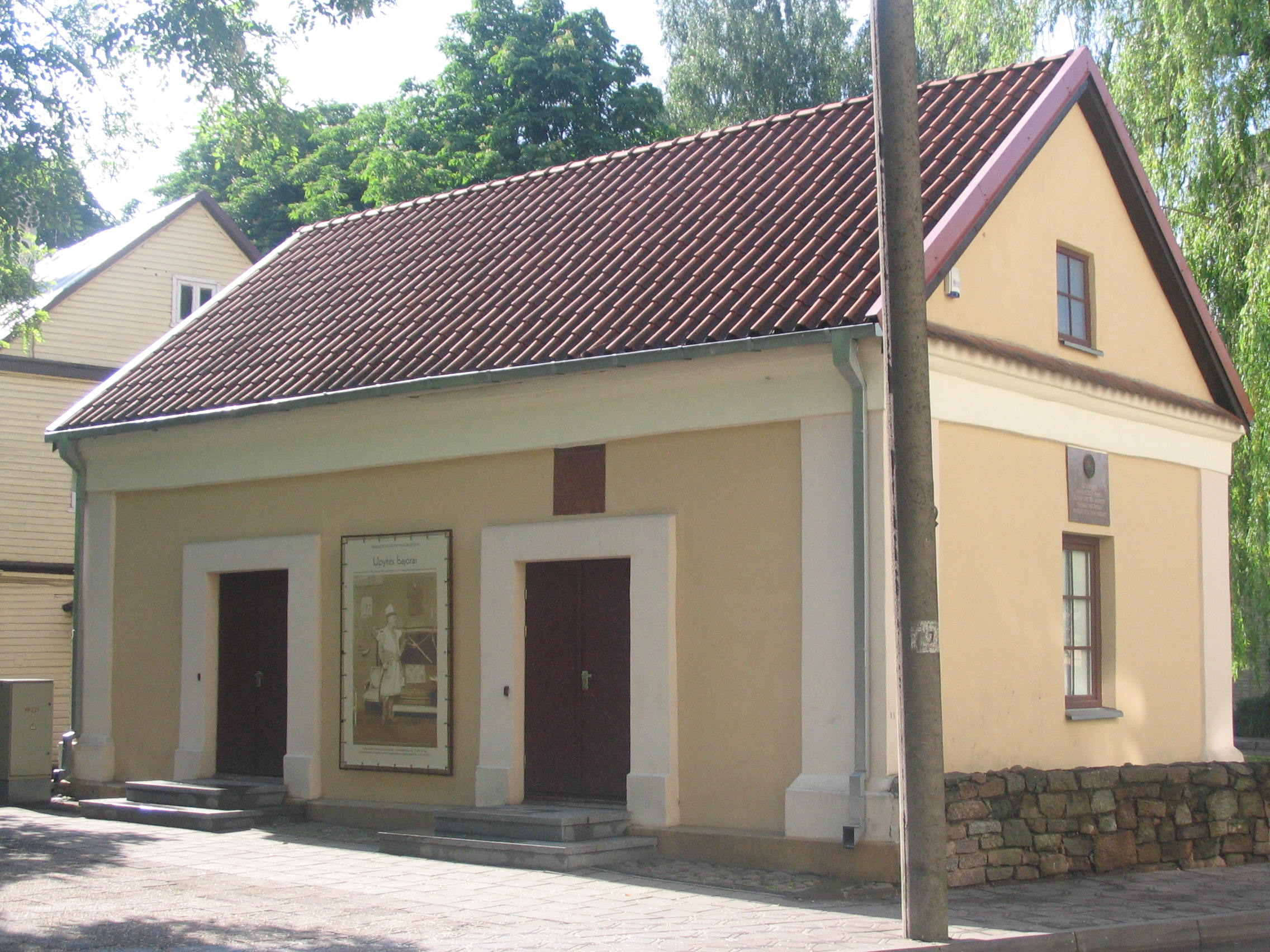 The oldest surviving building in Panevėžys: former court house of Upytė powiat. Built in 1614.